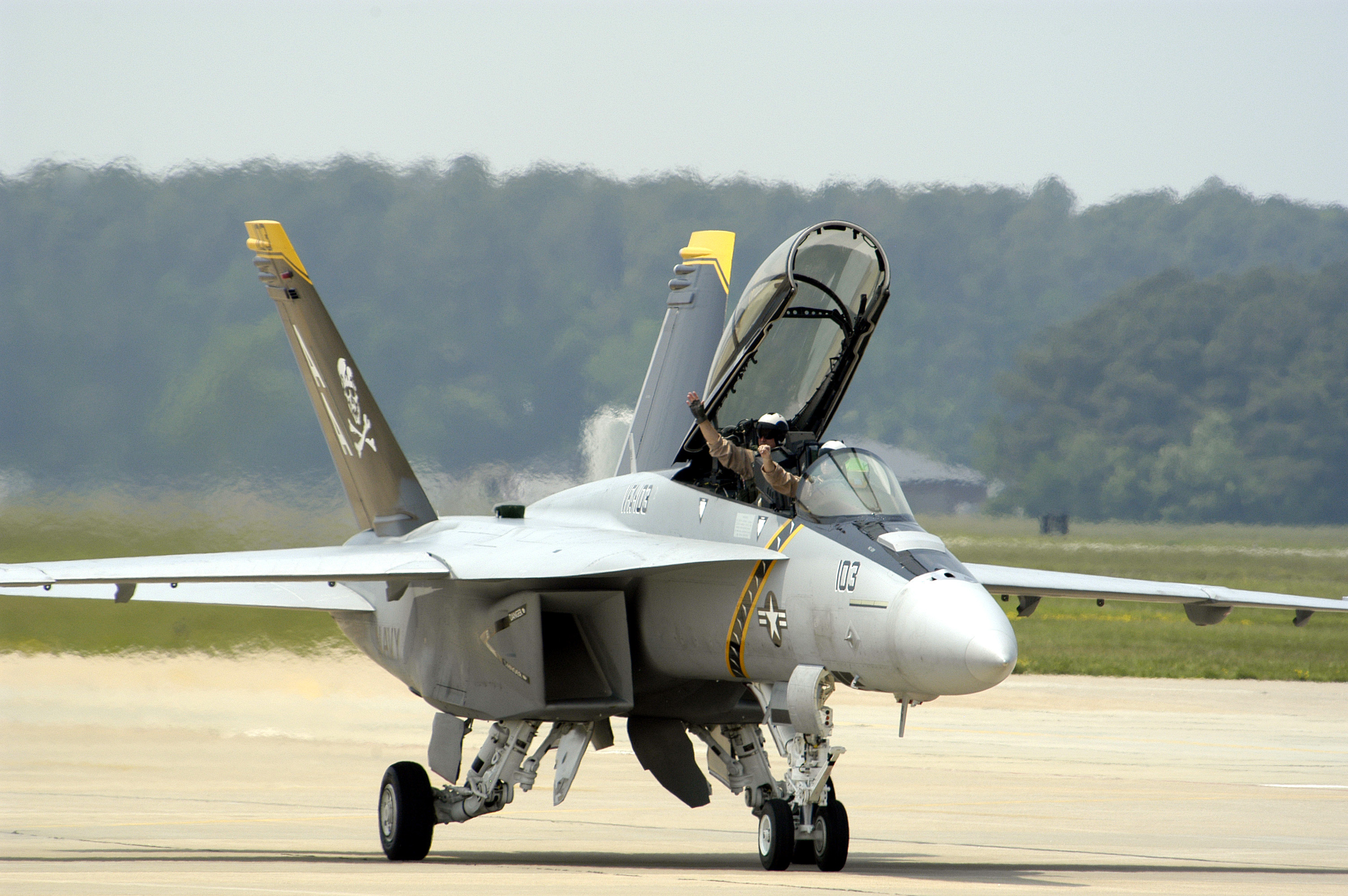 Hampton, Va. (May 14, 2005) - The pilot and Weapon Systems Officer wave to the crowd from the cockpit of their F/A-18F Super Hornet, assigned to the "Jolly Rogers" of Strike Fighter Squadron One Zero Three (VFA-103), after landing from their flight demonstration at the 2005 Air Power over Hampton Roads air show held on board Langley Air Force Base, Va. This year's air show showcased civilian and military aircraft from the Nation's armed forces, which provided many flight demonstrations and static displays. U.S. Navy photo by Photographer's Mate 2nd Class Daniel J. McLain (RELEASED)